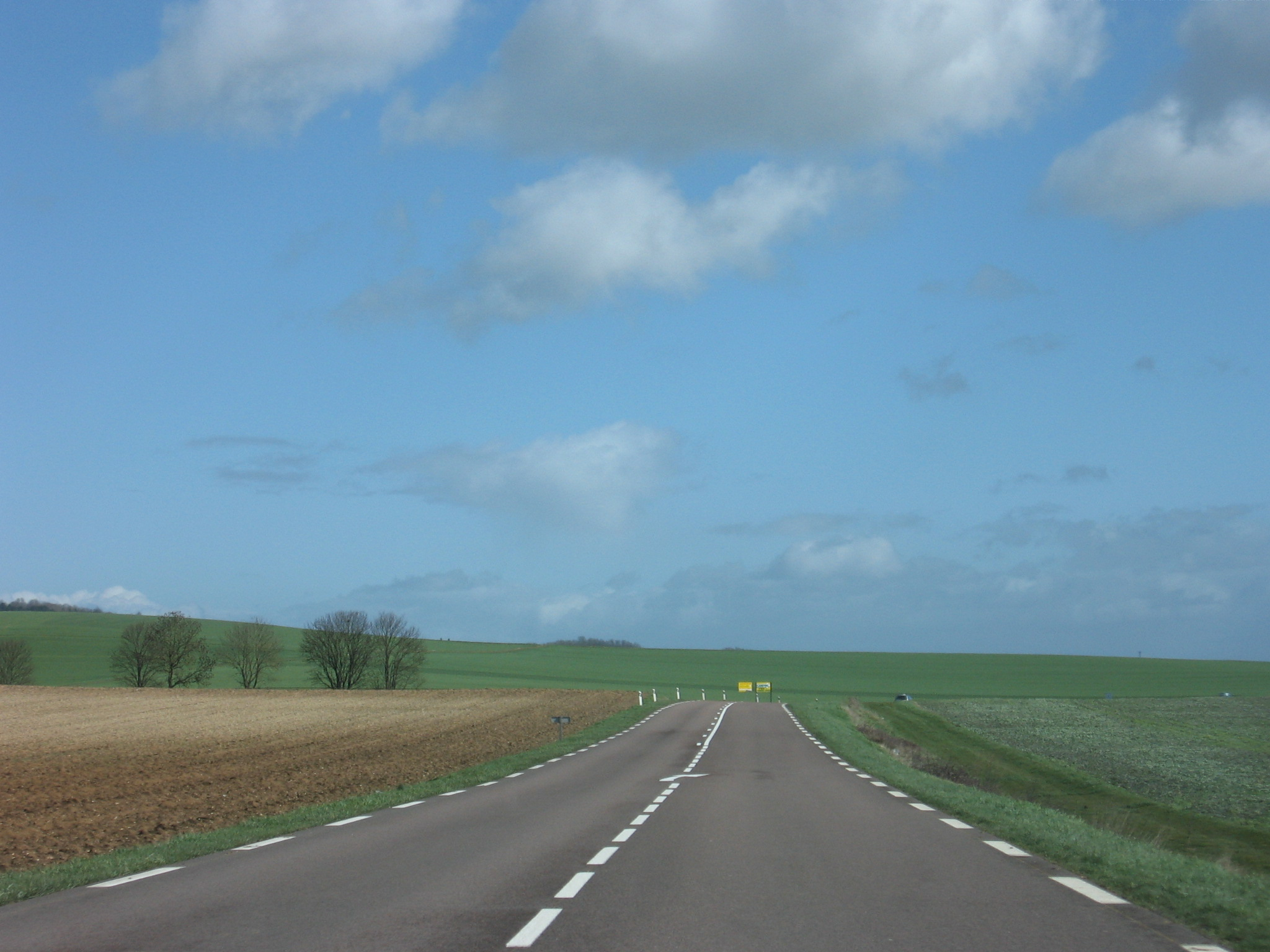 French road, near Sweepes